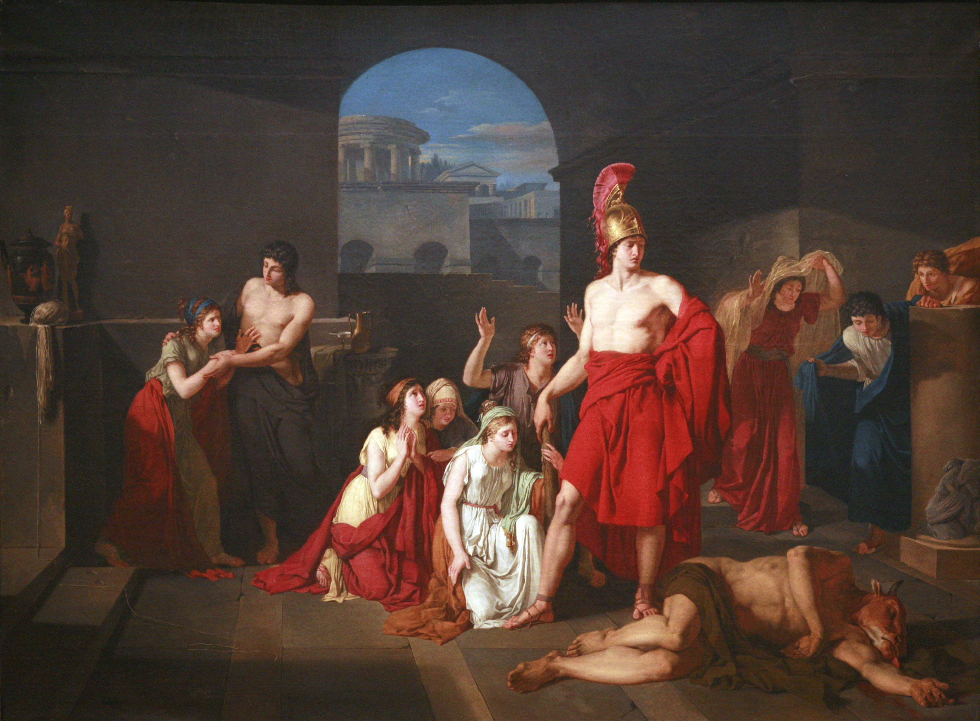 Theseus victor of the Minotaur, Charles-Édouard Chaise, oil on canvas, circa 1791. Accession number 1392.